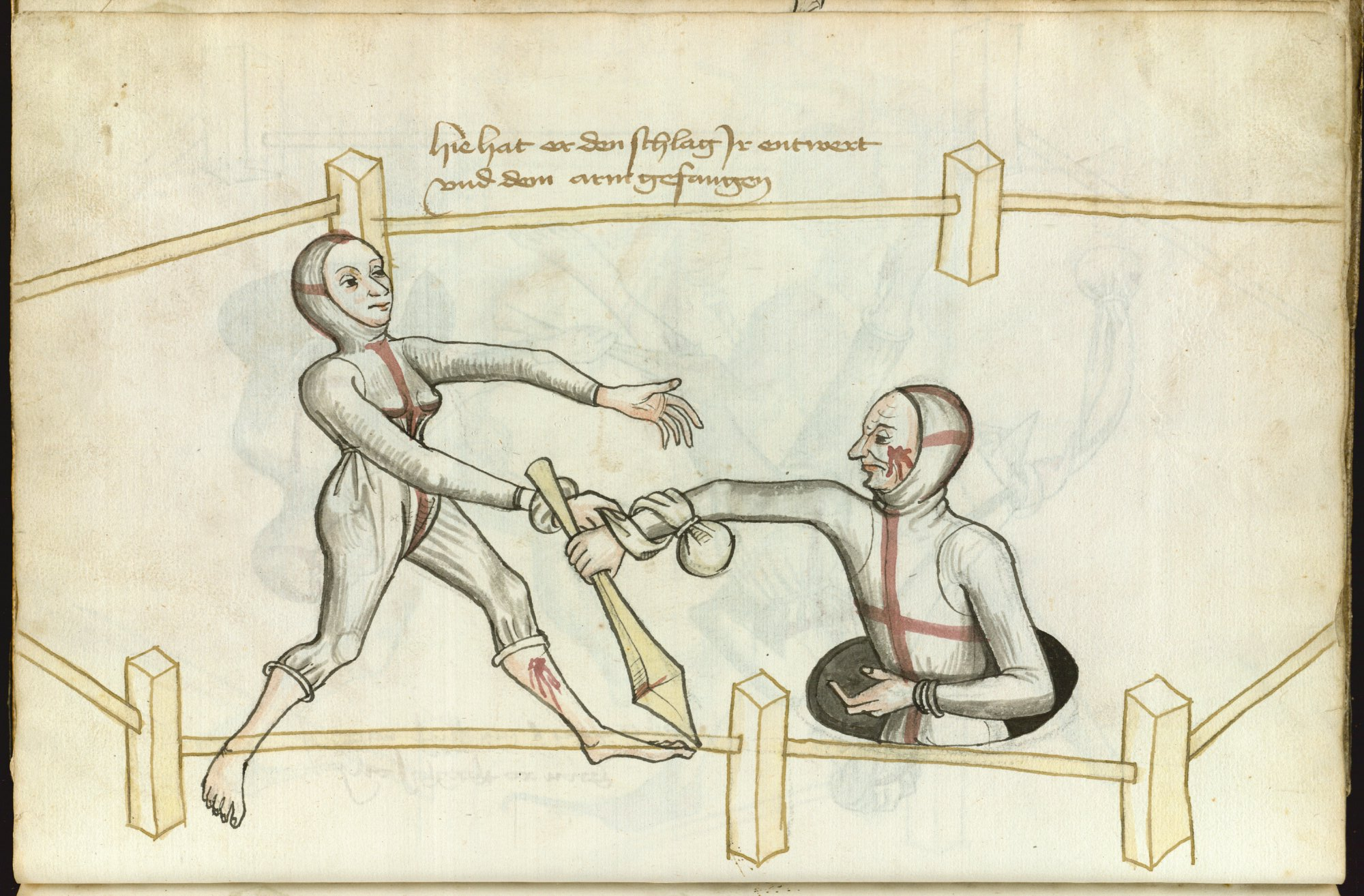 The Ms.Thott.290.2º is a fencing manual written in 1459 by Hans Talhoffer for his own personal reference and illustrated by Michel Rotwyler.